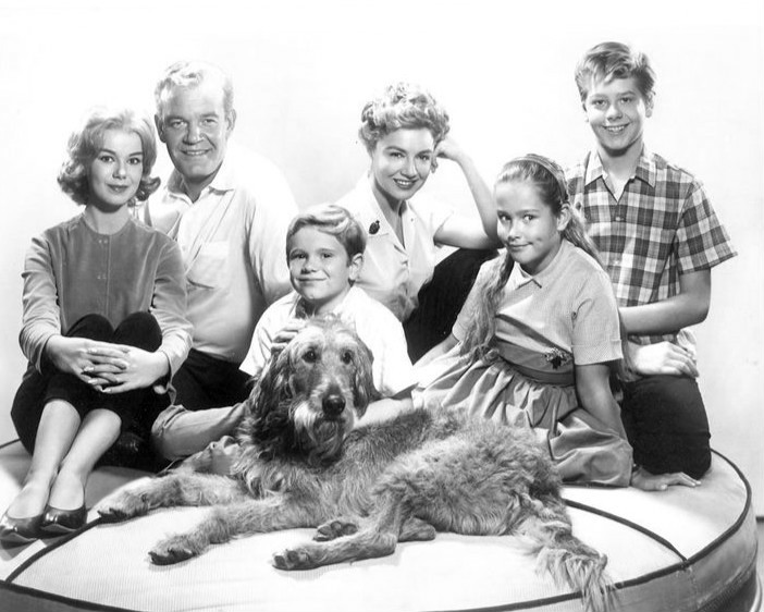 Publicity photo for the premiere of the television program Room for One More (1962). Back, from left: Ahna Capri, Andrew Duggan, Peggy McCay, Tim Rooney. Front, from left: Ronnie Dapo, Carol Nicholson and "Tramp".